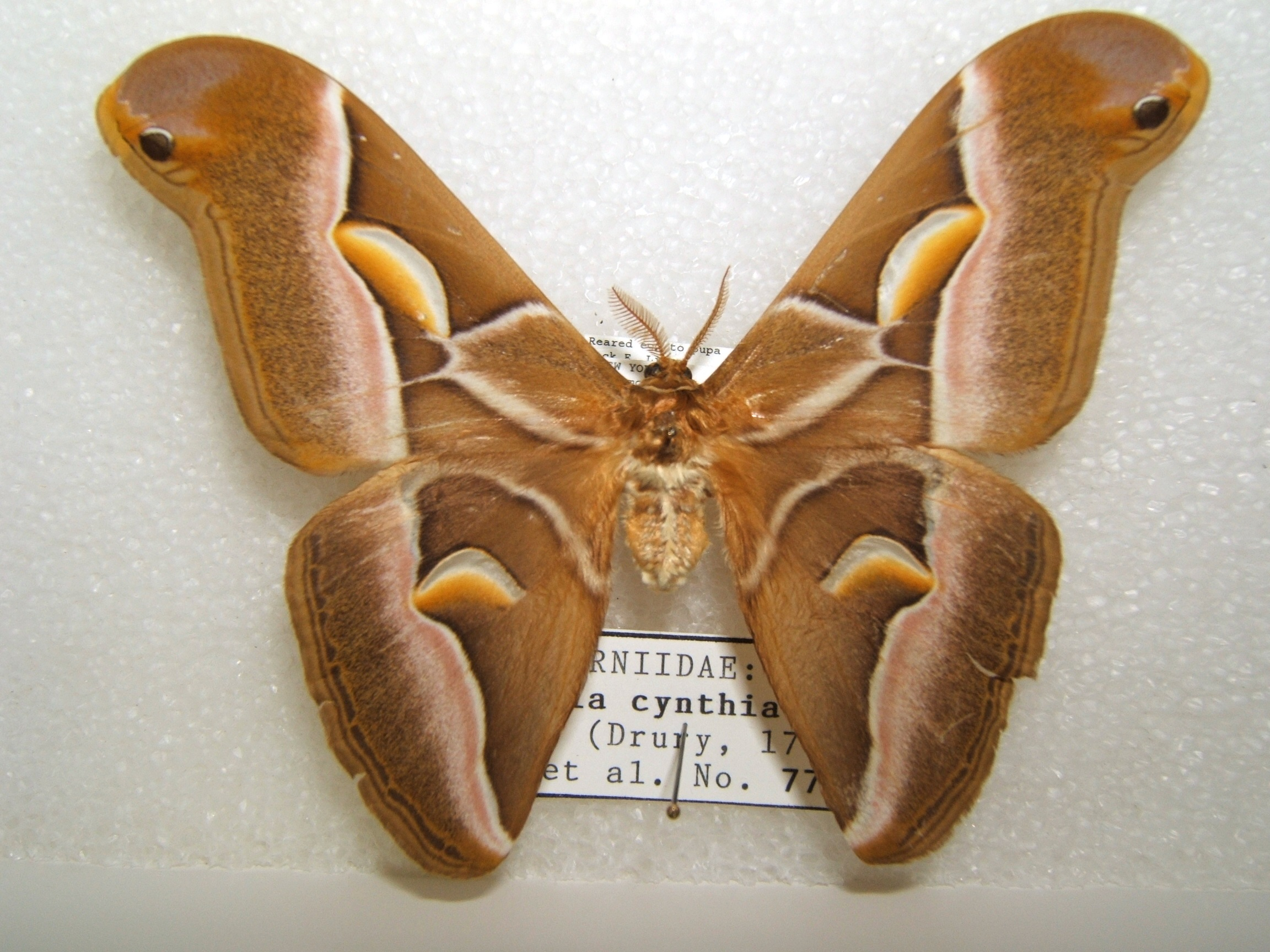 Samia cynthia adult male taken by Shawn Hanrahan at the Texas A&M University Insect Collection in College Station, Texas.